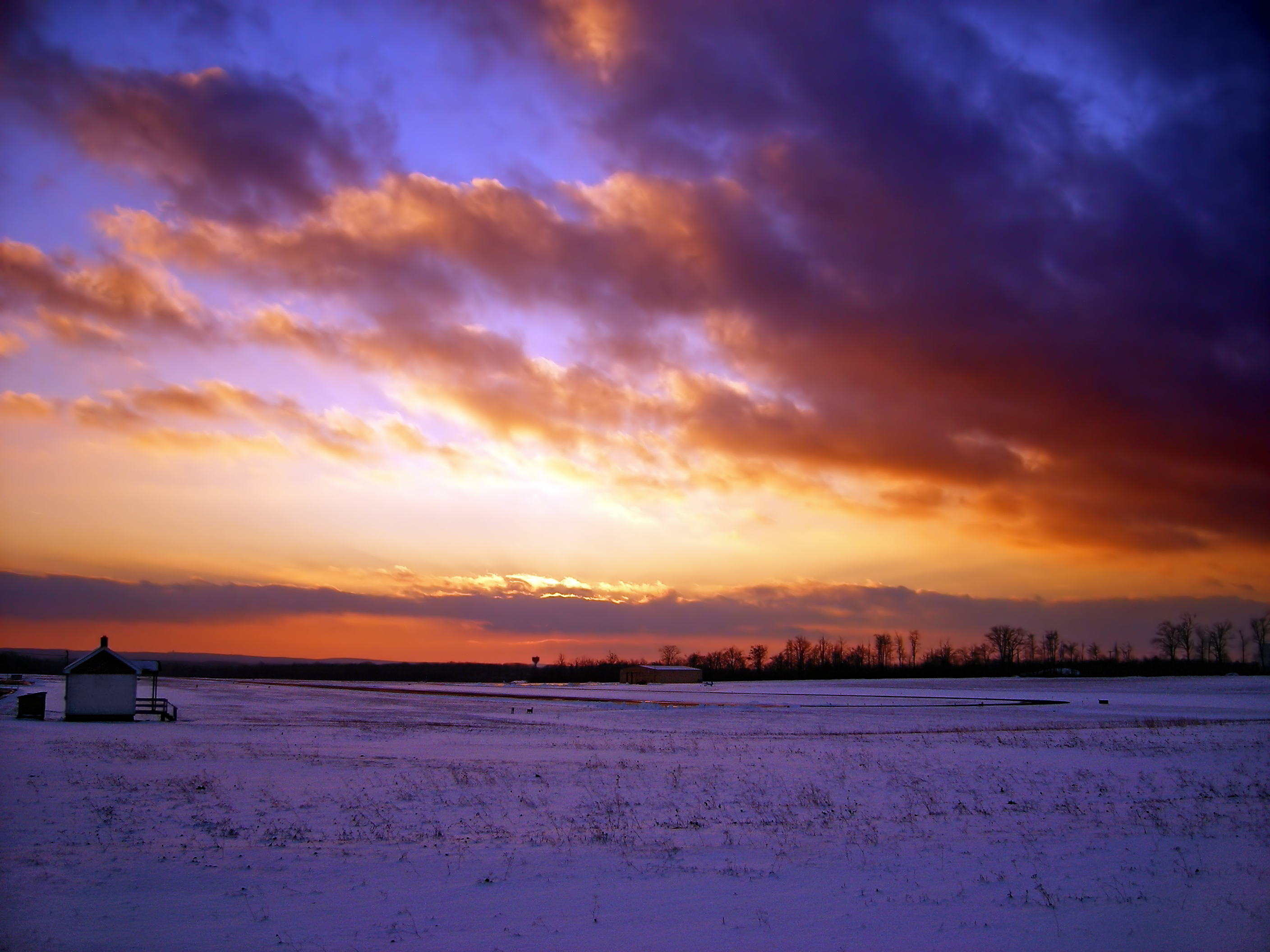 Late-day sky, Coolbaugh Township, Monroe County.